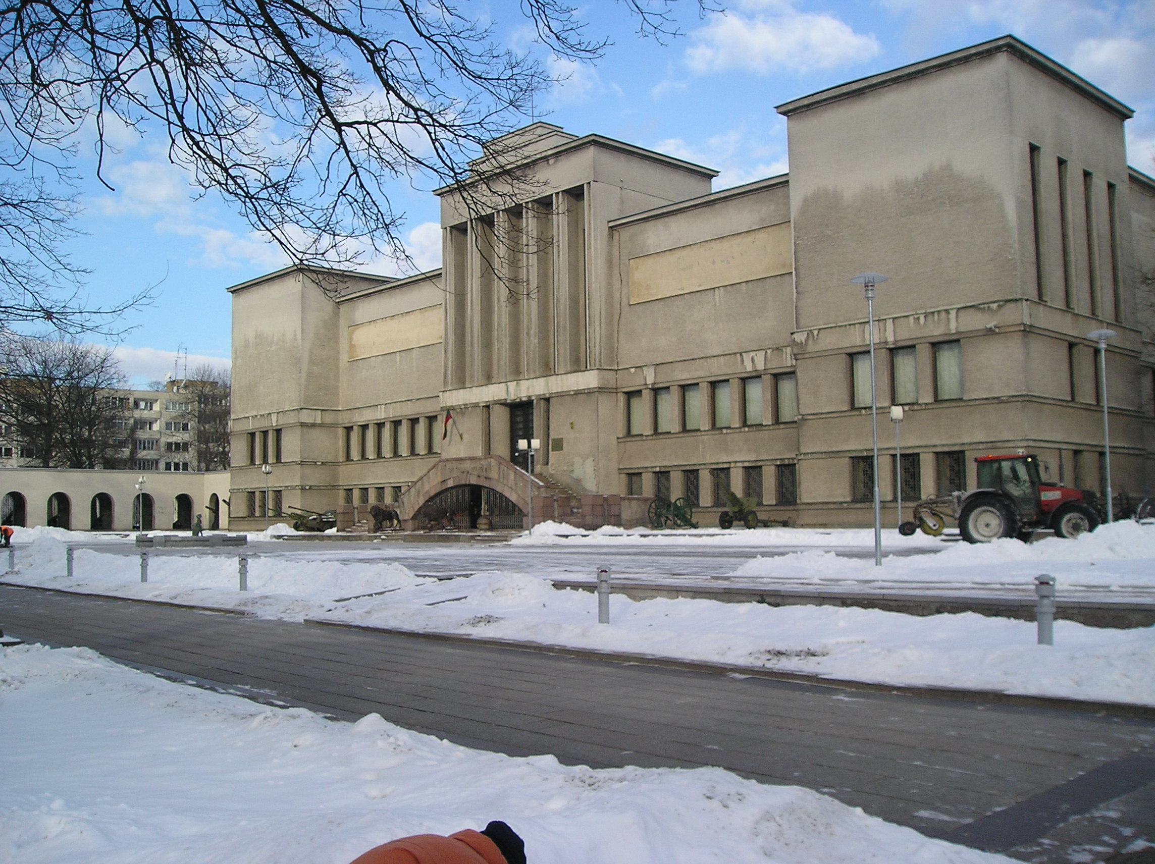 Vytautas the Great War Museum in Kaunas, Lithuania.